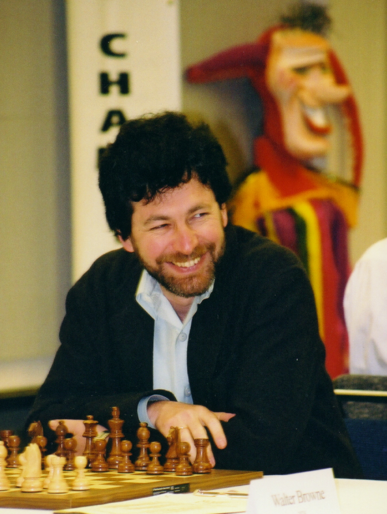 Gregory Kaidanov at the 2002 U.S. Chess Championships in Seattle, Washington. Kaidanov is the one in the foreground.